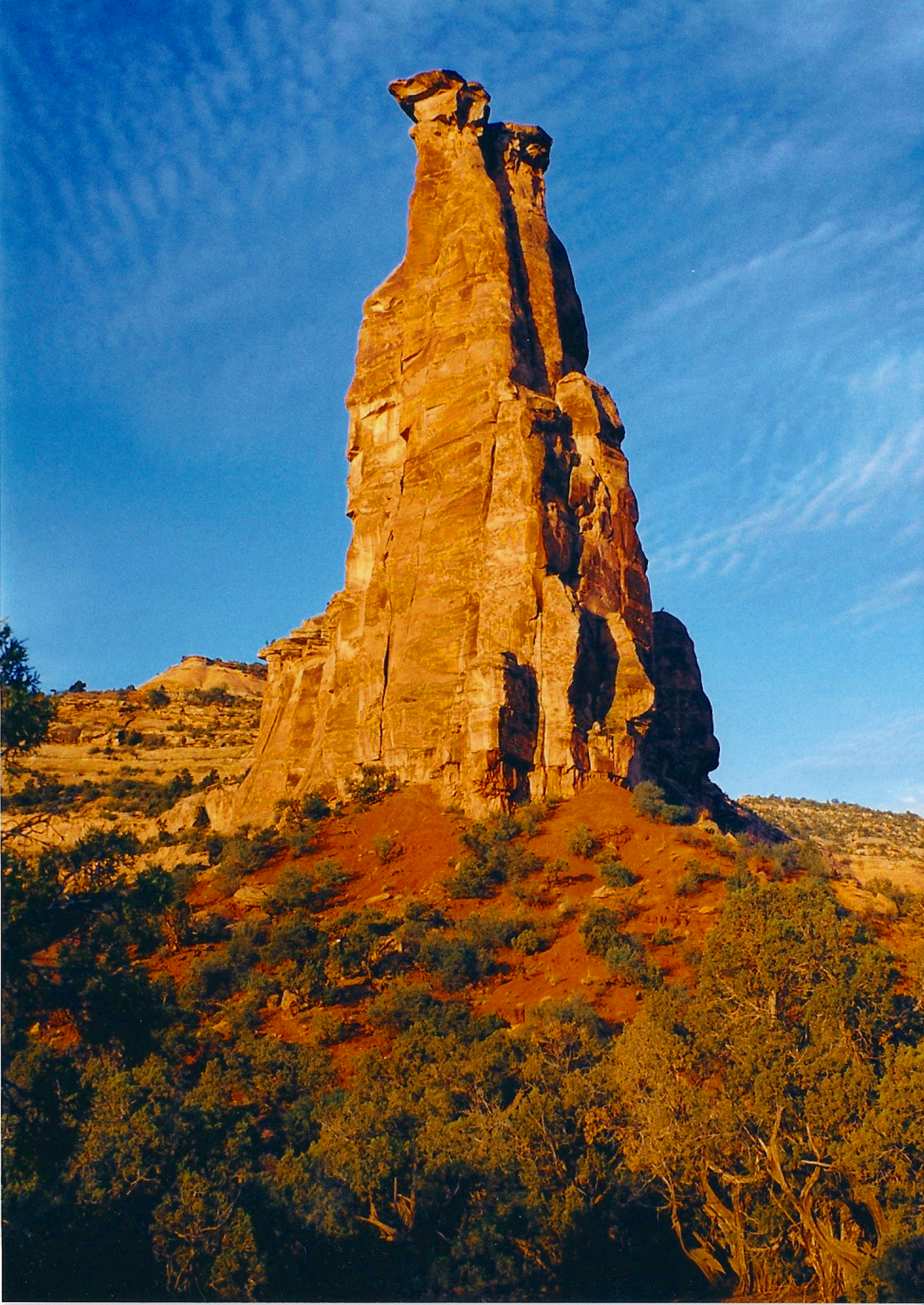 Independence Monument in Colorado National Monument outside of Grand Junction, Colorado.